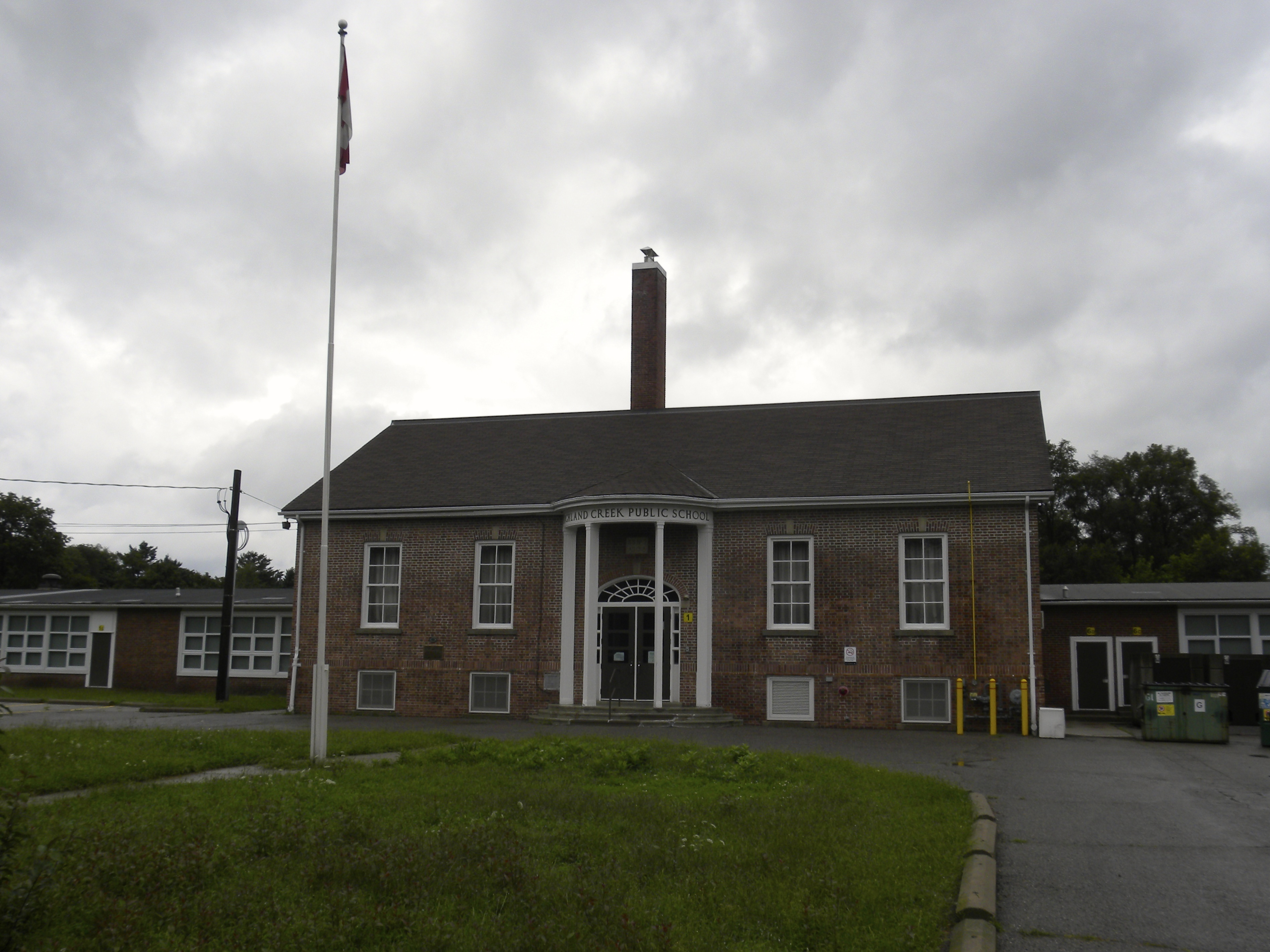 Heading further east, we come to the Highland Creek Public School.